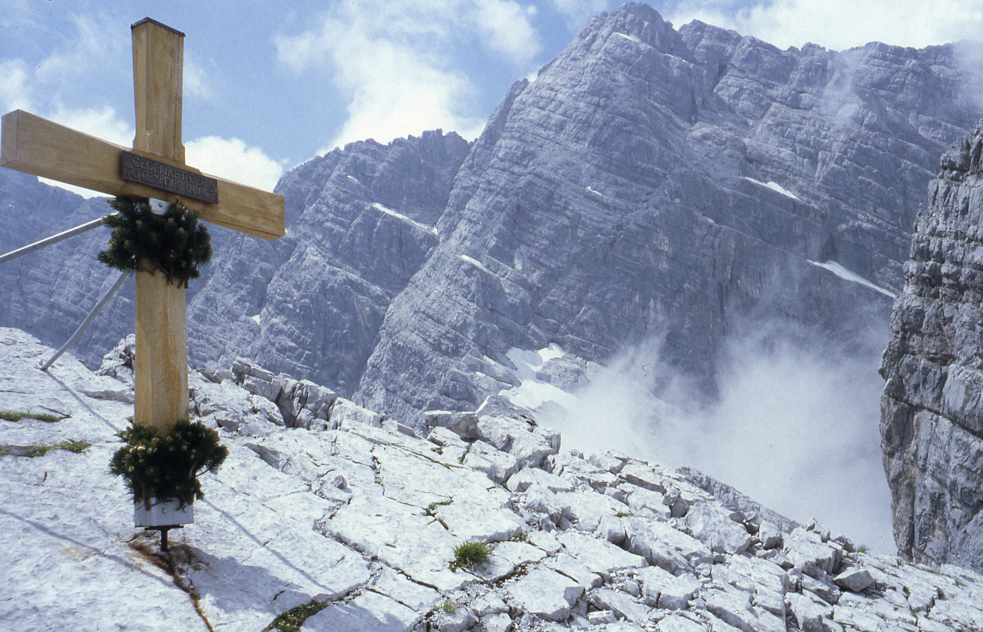 Watzmann southeast wall seen from 3rd Child